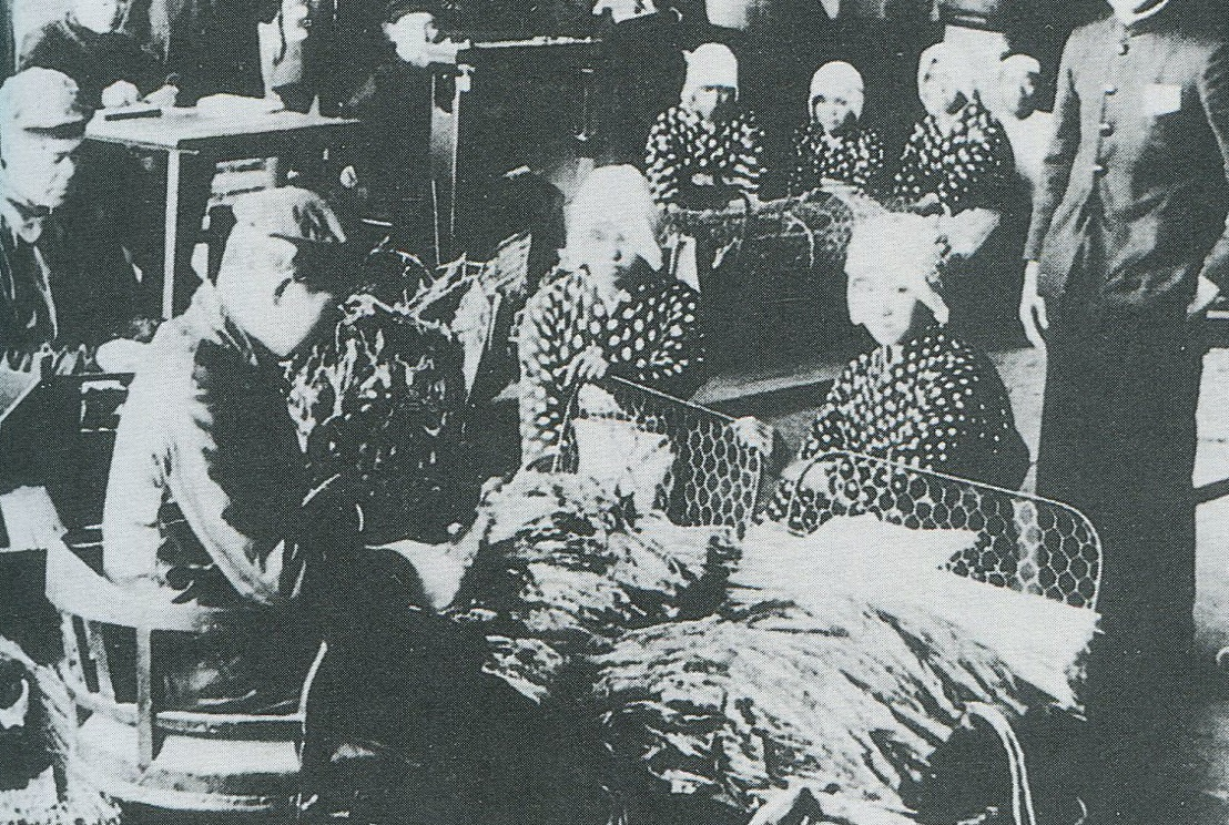 The production of leaf tobacco in Sekiyado